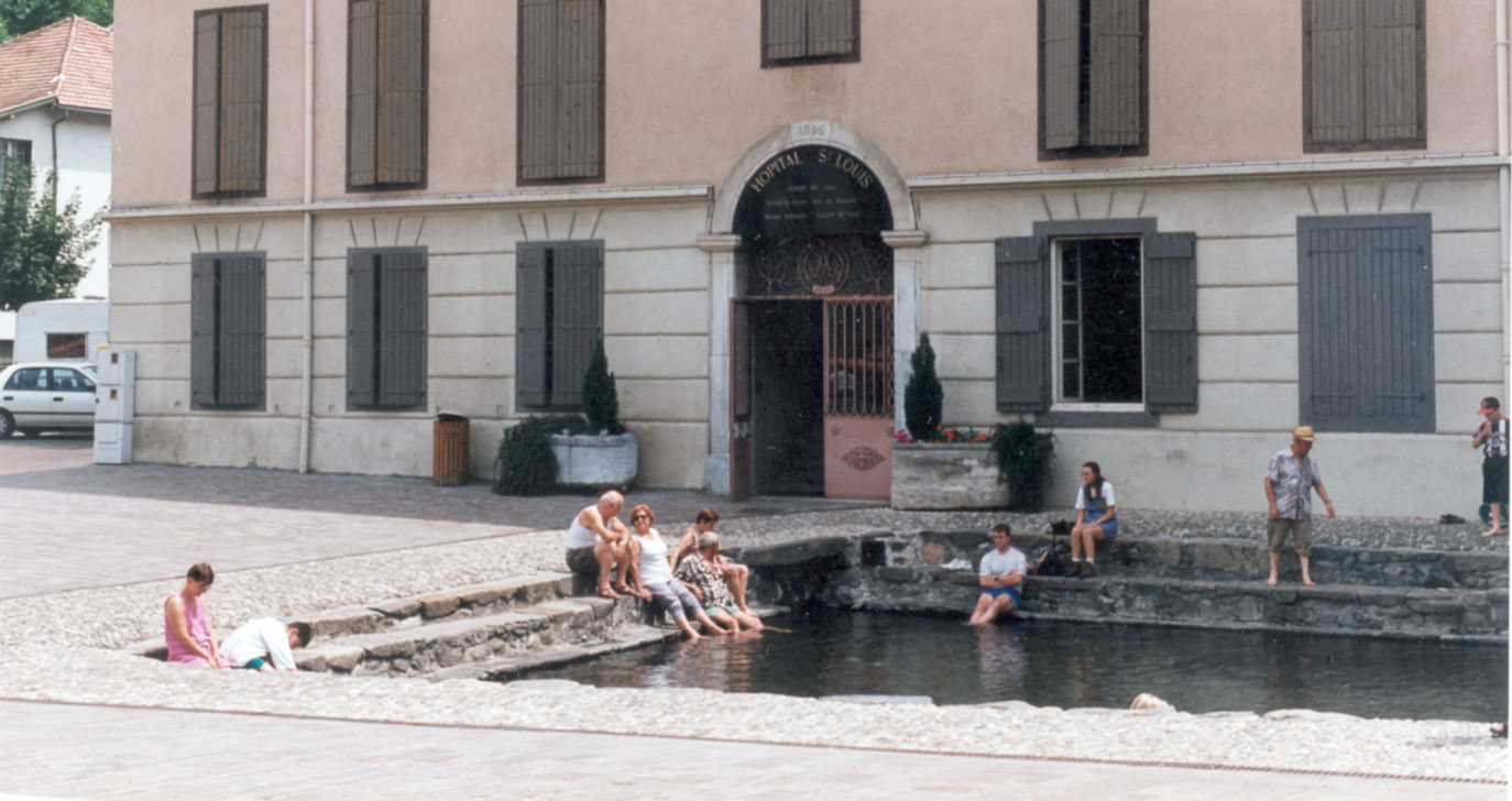 Ax-les-Thermes